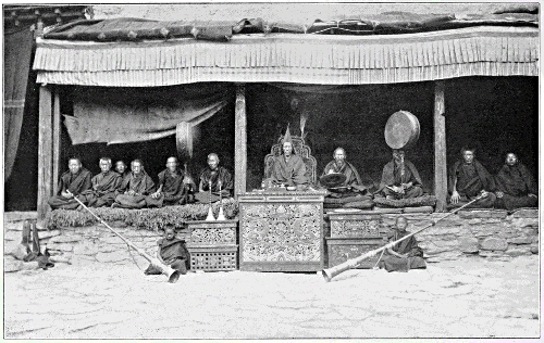 Lamas of Kharta Monastery